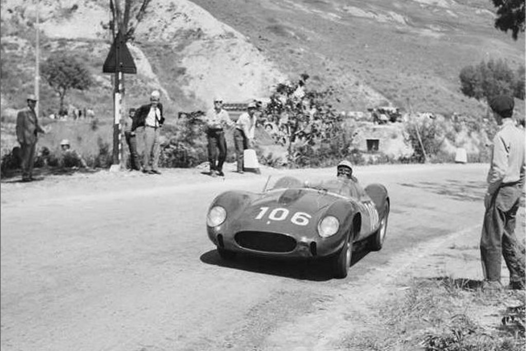 Entry #106 (and the WINNER) in the Targa Florio on 11 May 1958 was the 1958 Ferrari 250 Testa Rossa s/n 0724TR, driven by Luigi Musso and Olivier Gendebien.[1]